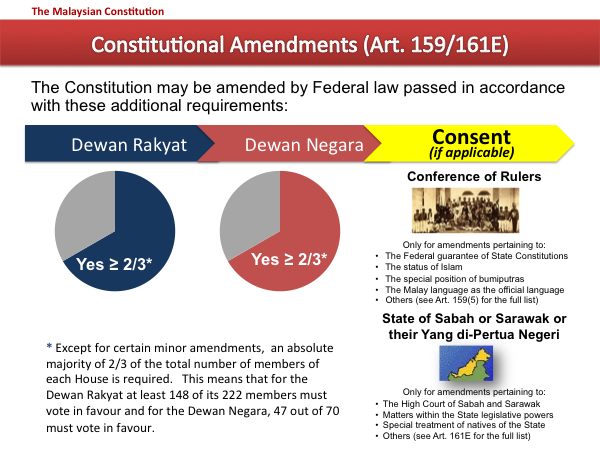 Diagram of the process for amending the Malaysian Constitution